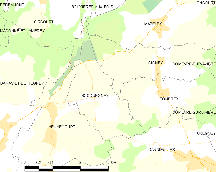 Map of French municipality Bocquegney